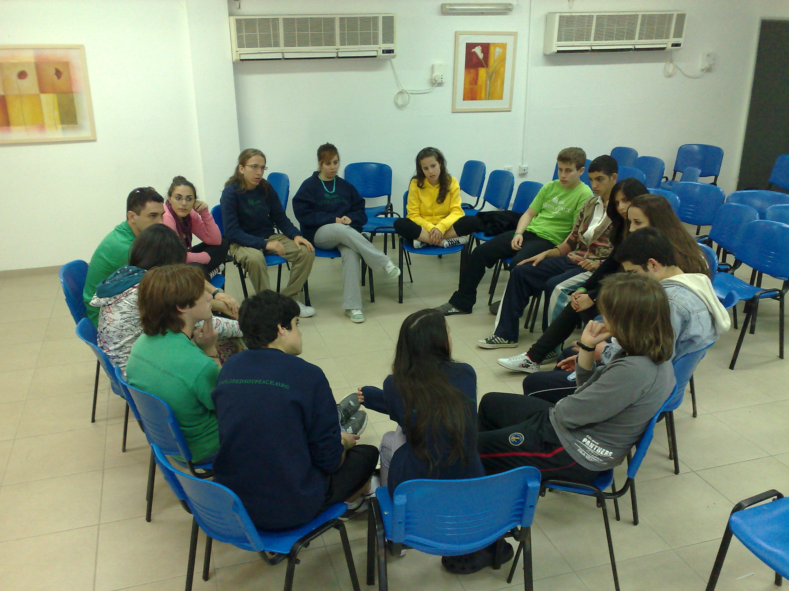 On March 13 and 14, Seeds of Peace held a leadership & dialogue seminar for 60 Jewish Israelis and 20 Arab Israelis in Shlomi (northern Israel). The group viewed the documentary "In October the Earth Shook," which describes the events surrounding the 2000 killing of Seed Aseel Asleh by Israeli police in 2000. The screening was followed by an intense dialogue. The next day, the seminar focused on the wider Israeli-Palestinian conflict, beginning with a showing of the Encounter Point documentary, and followed by another dialogue session. Later, participants took part in a leadership activity. The event ended with a letter-writing session, where Seeds addressed their Palestinian counterparts.